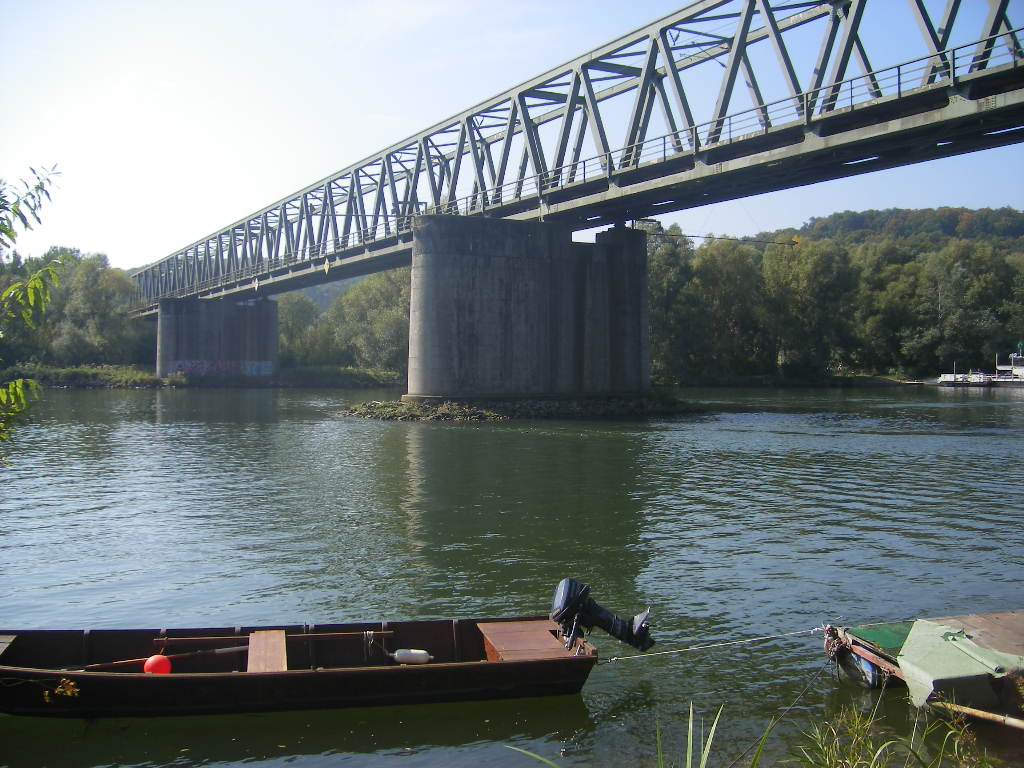 Regensburg - railway bridge between Prüfening and Riegling